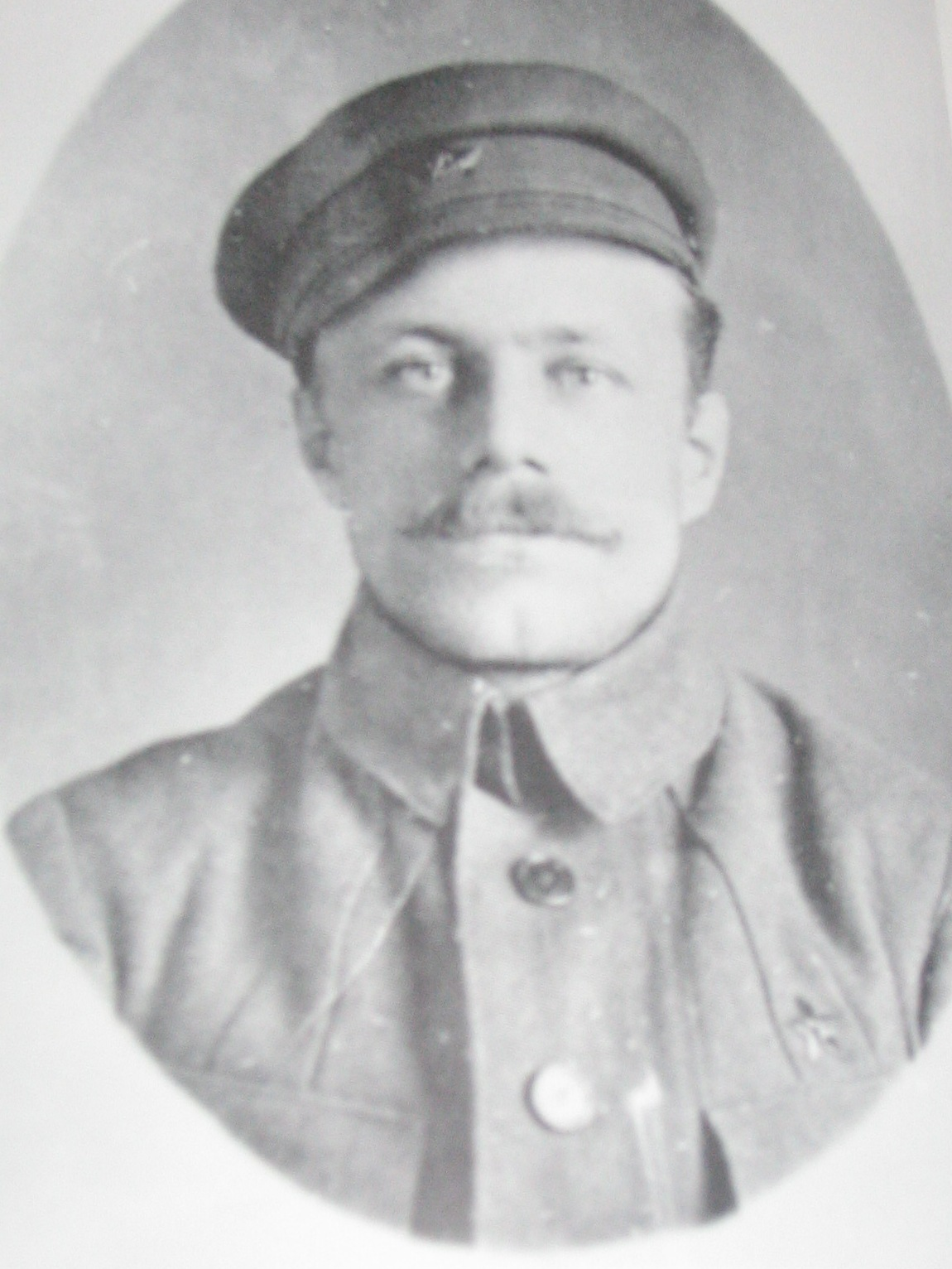 Finnish red guard leader Jukka Rahja